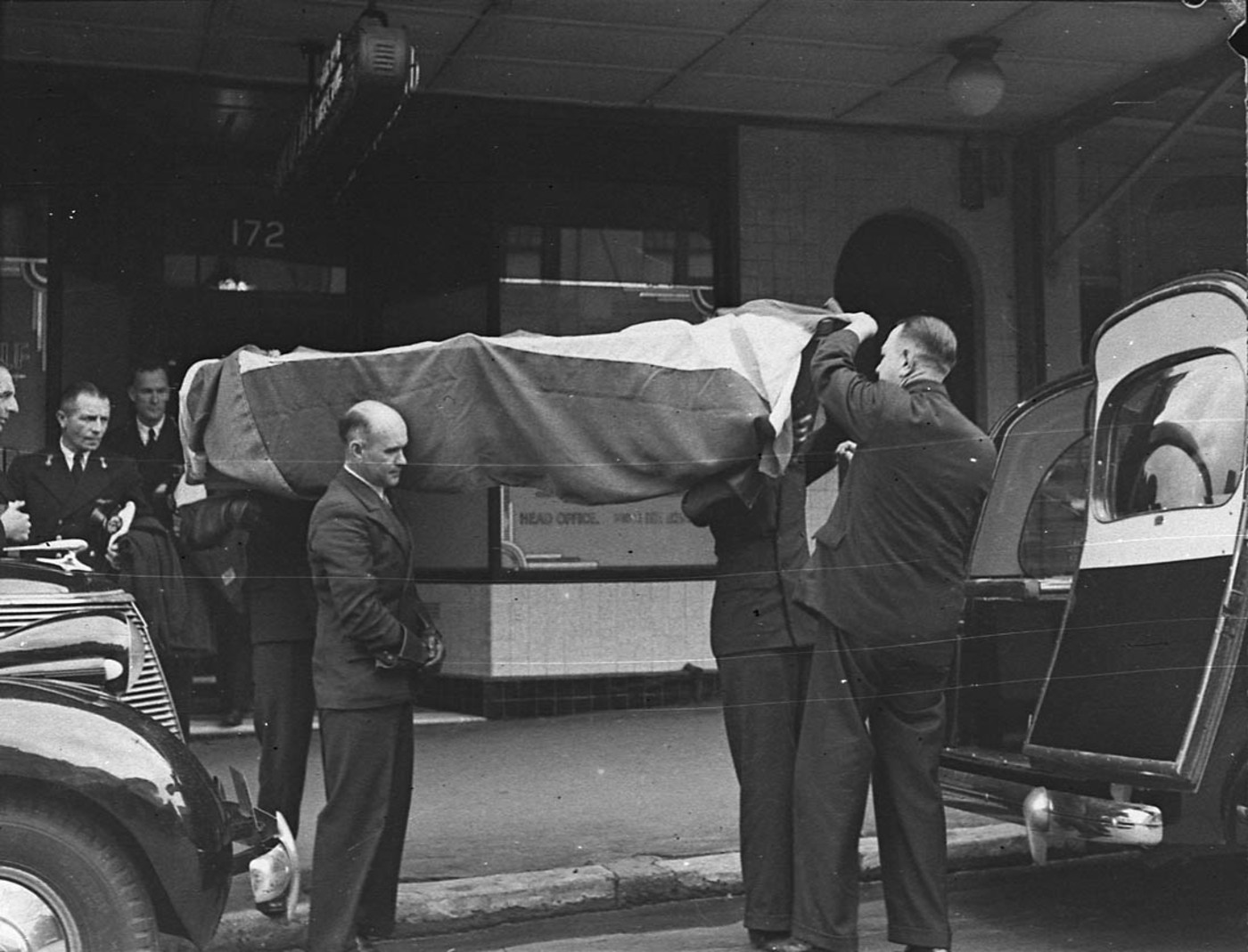 Medcalf Funeral Director: funeral of Dutch sailor